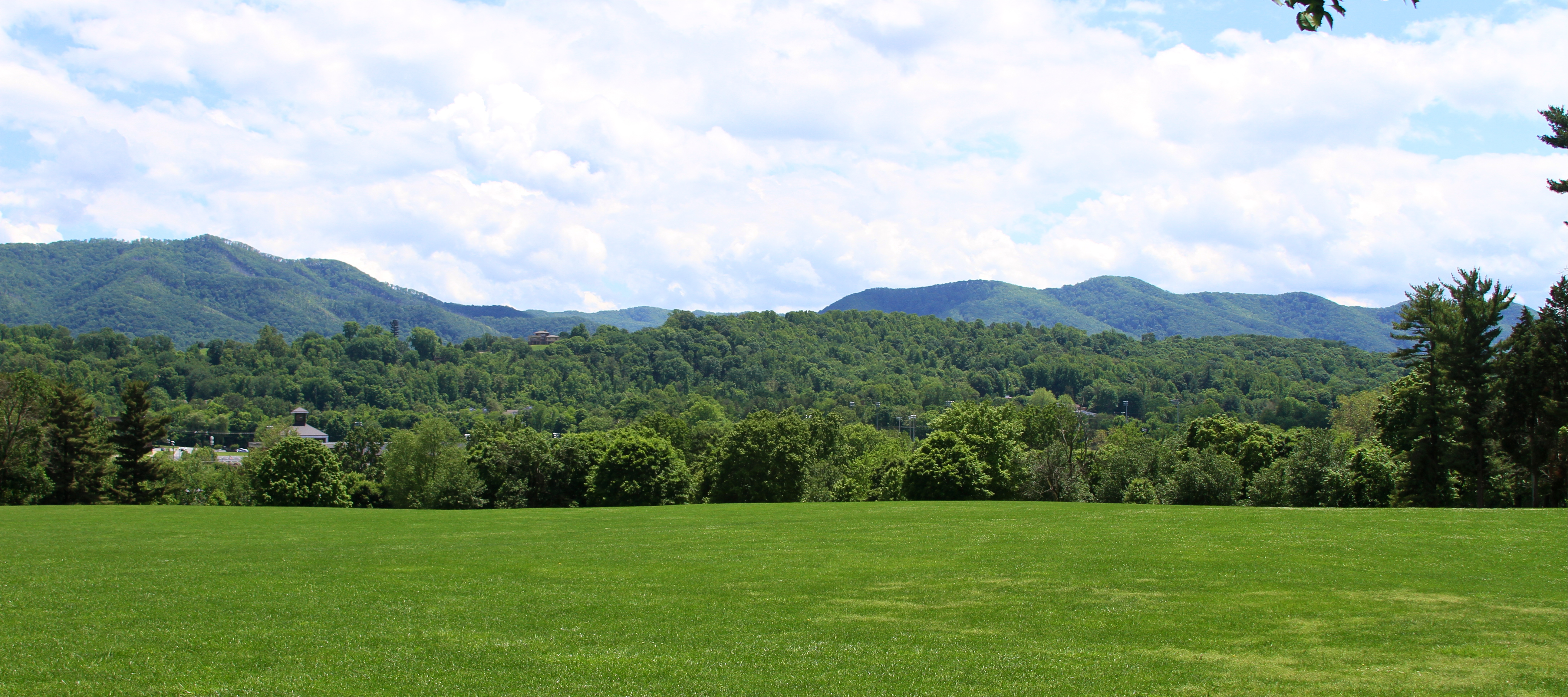 A view of Buffalo mountain, facing south on the Mountain Home VA main lawn.